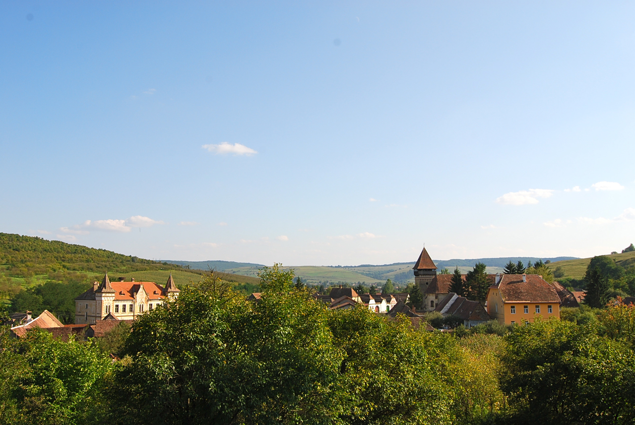 view of Grossalisch/Seleuș village in Romania